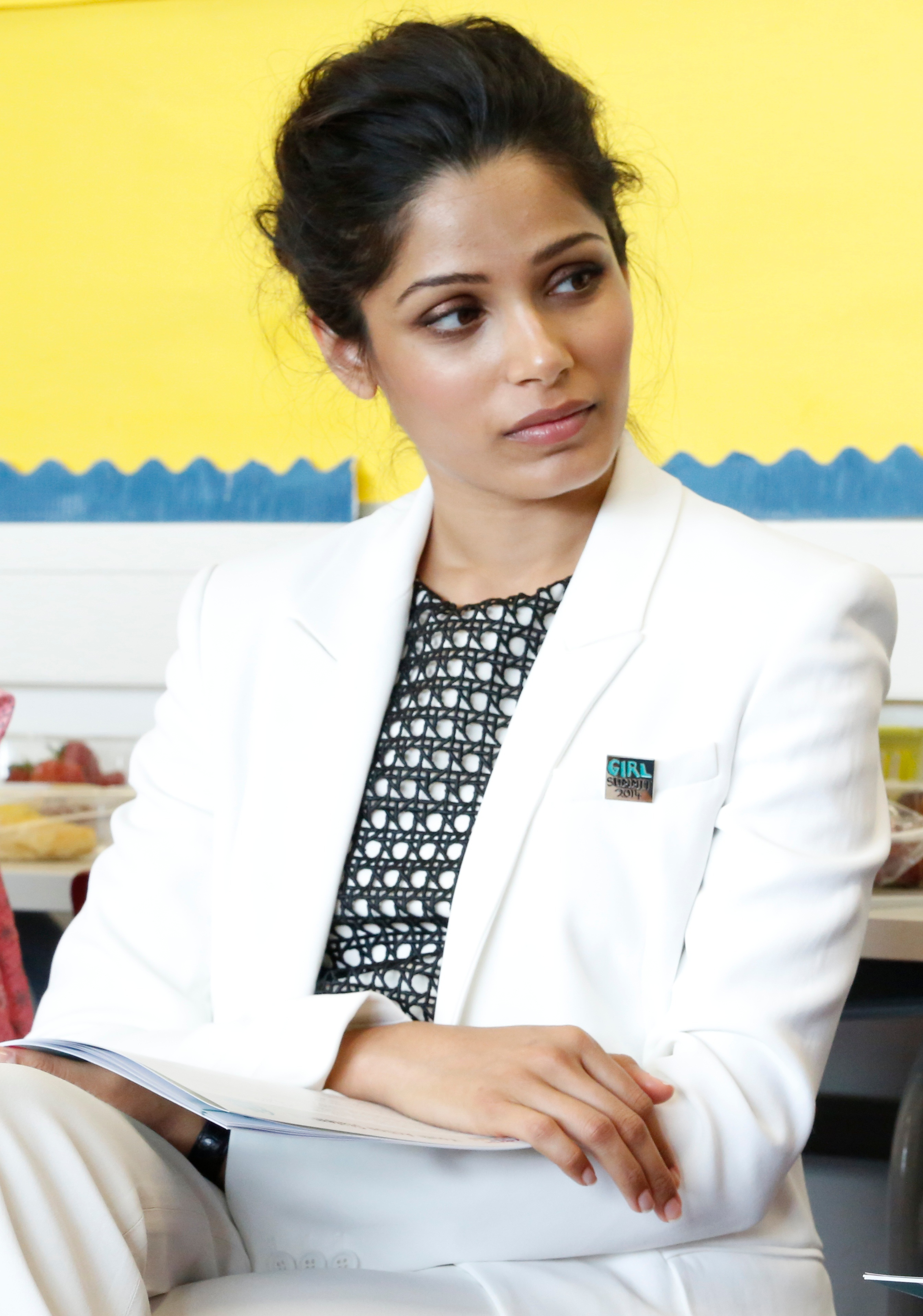 "Let's educate the girl and make her independent, she can become whatever she wants to," inspiring words from Malala at the Girl Summit. She's seen here with actress and Plan International Girls' Rights Ambassador, Freida Pinto, discussing girls' rights with the Youth For Change panel. Picture: Jessica Lea/Department for International Development